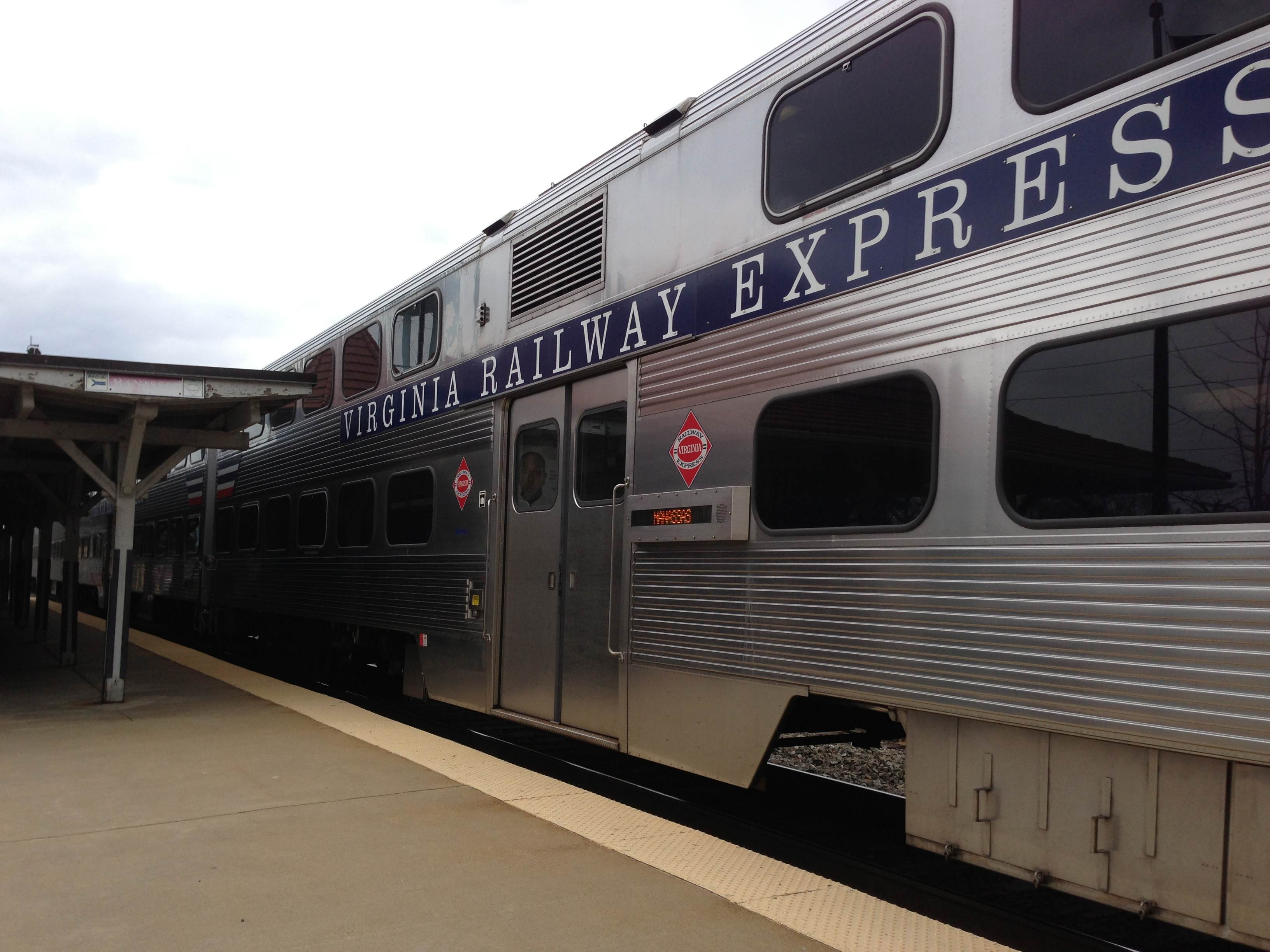 A Sumitomo Gallery IV car of the Virginia Railway Express